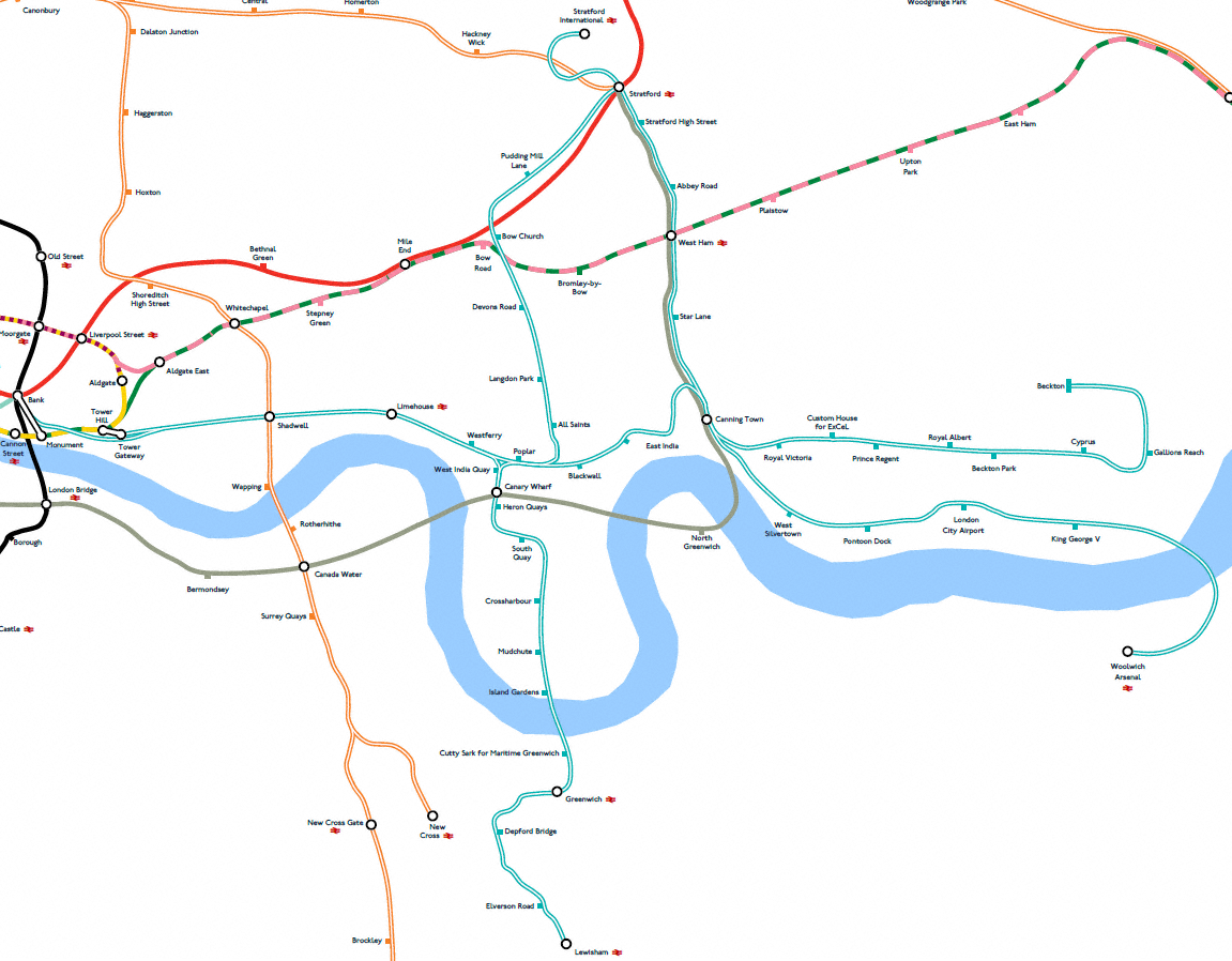 Geographical Map of Docklands Light Railway Network and Connections to TfL controlled Rail services